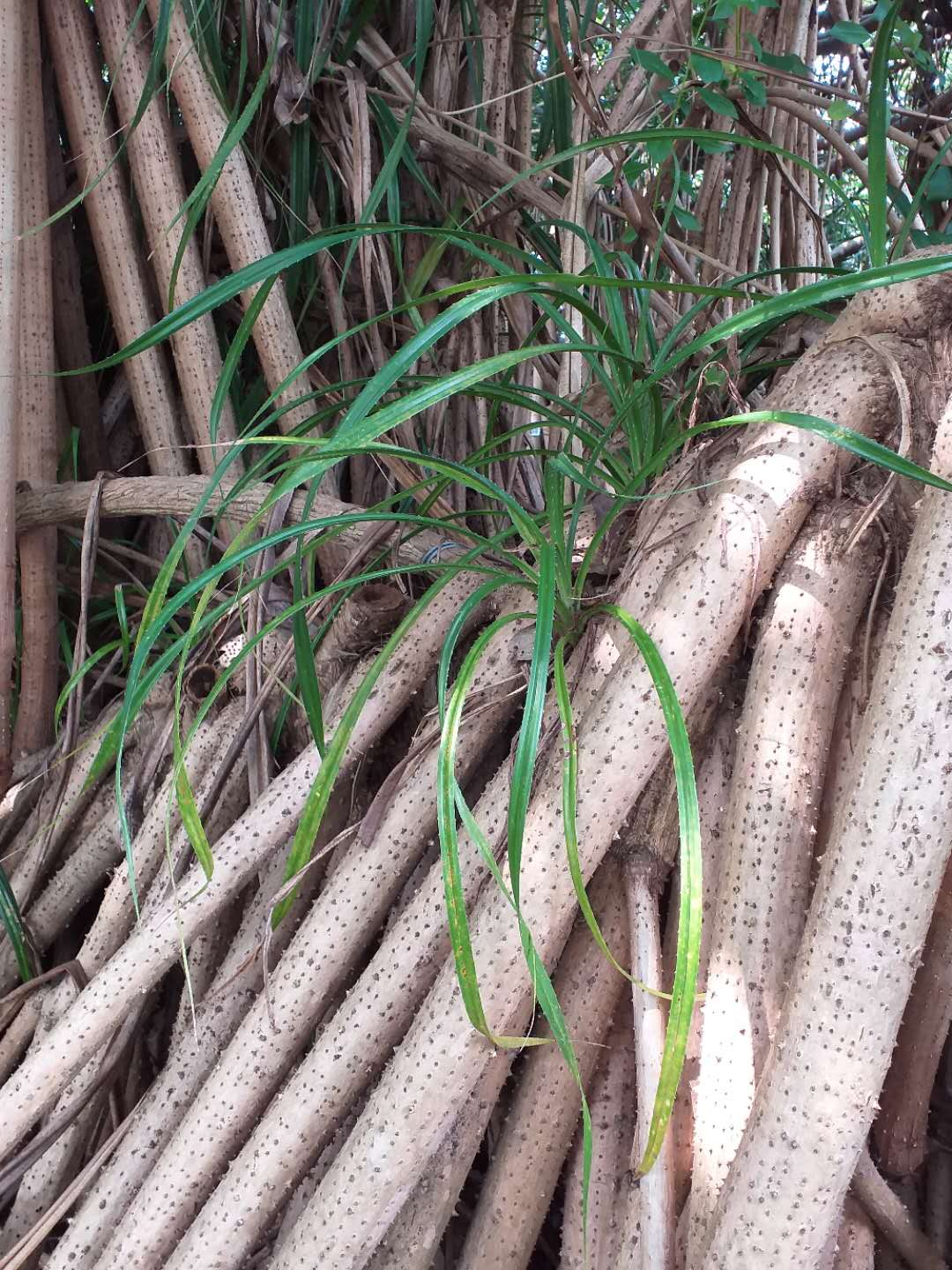 Aerial roots of Pandanus tectorius are spiny. The long, narrow leaves are characteristic of Pandanus tectorius.Taichung Botanical Garden. Taiwan.